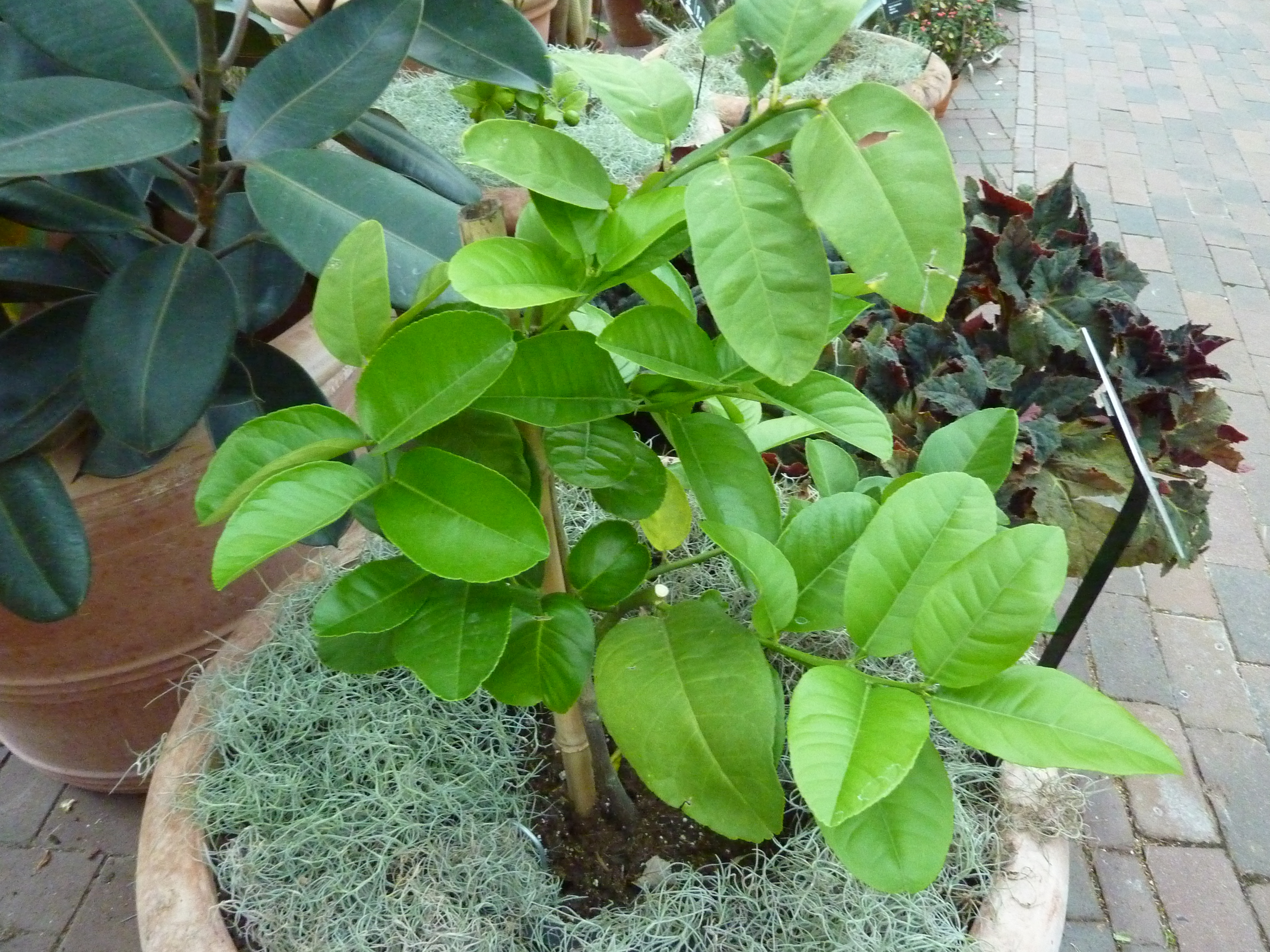 Giant lemon, Citrus 'Ponderosa', in the Linnean House of the Missouri Botanical Garden